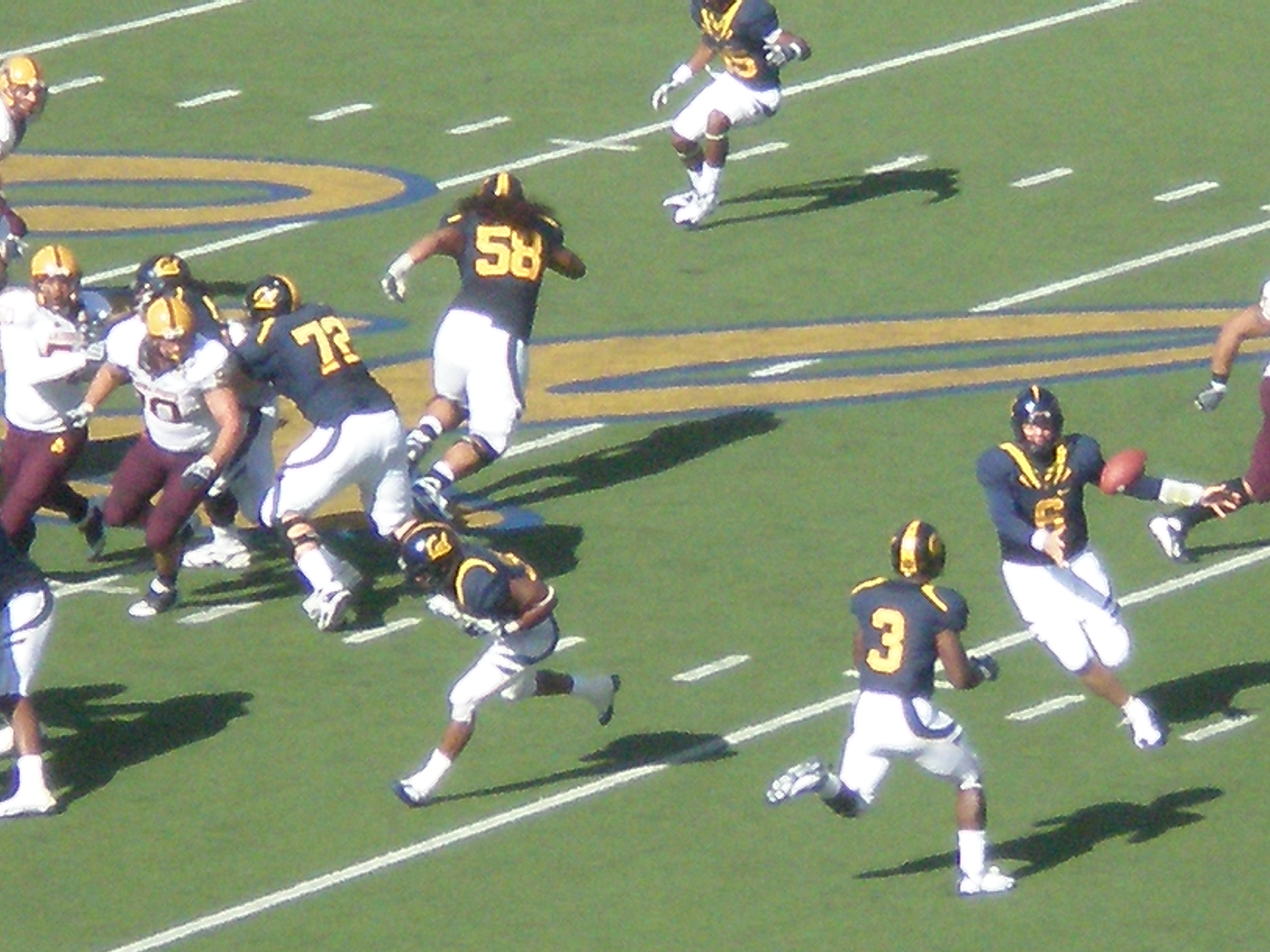 Cal quarterback Nate Longshore (#6) pitches the ball to wide receiver Jeremy Ross (#3) at a Cal home game against the Arizona State Sun Devils. The Golden Bears won 24-14.